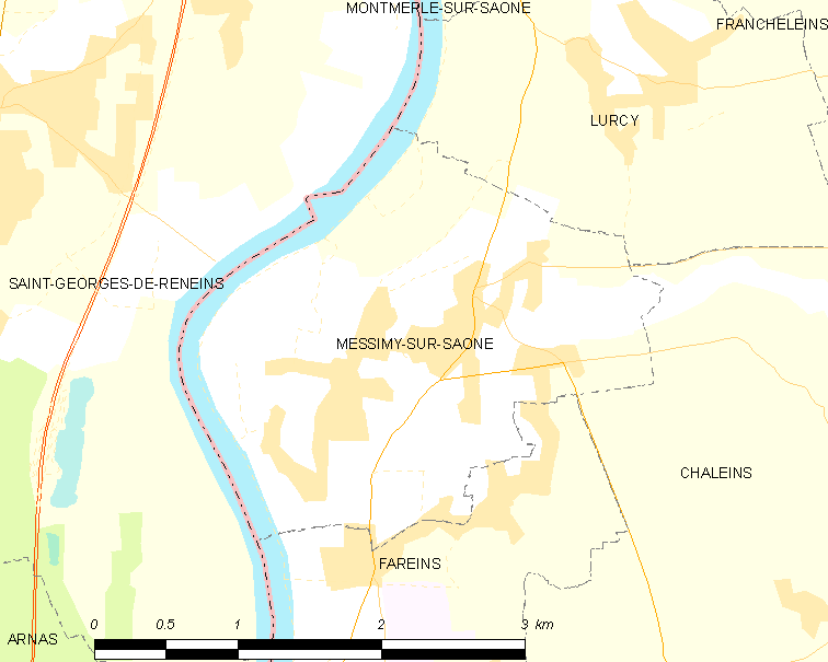 Map of French commune: Messimy-sur-Saône Map commune FR insee code 01243.png